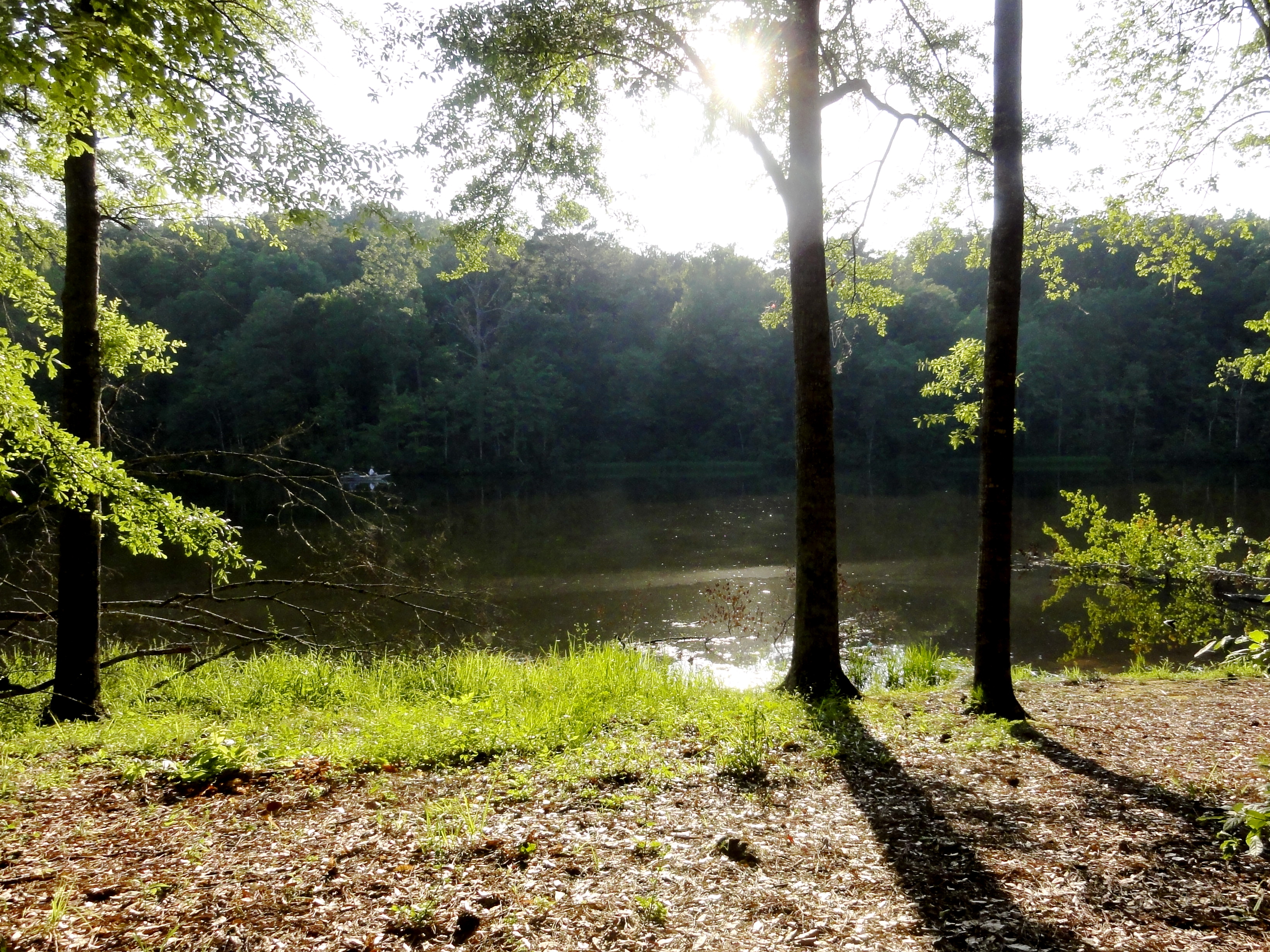 Sun on Water